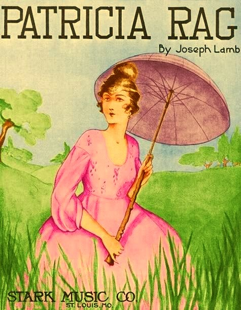 Patricia Rag by Joseph Lamb, 1916